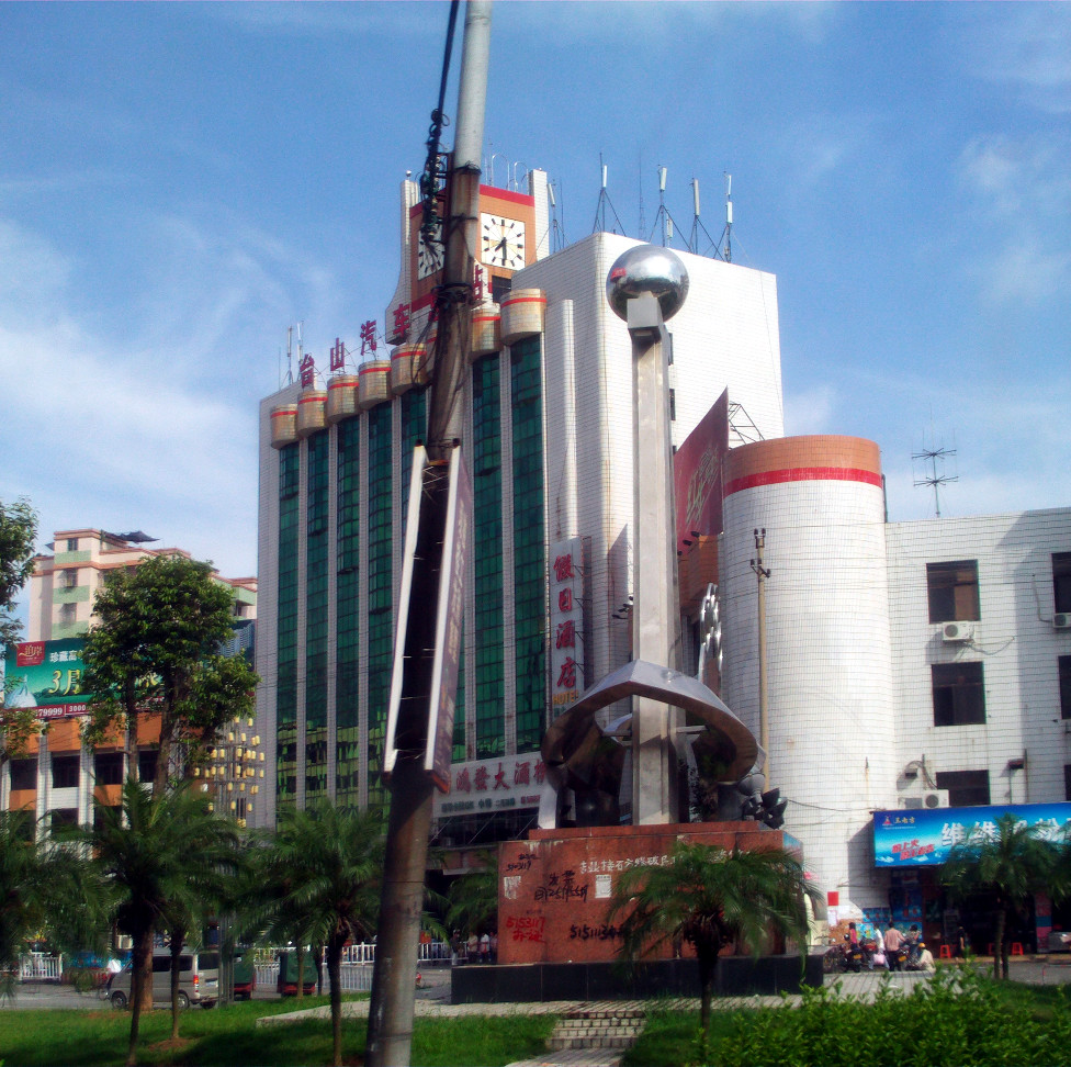 Jiangmen, Taishan, Taicheng - Central Bus Station (zhong zhan)